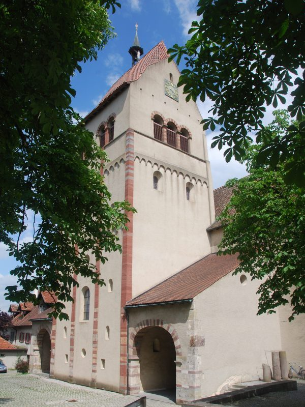 Church of Reichenau Monastery, lake Constance